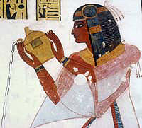 Mentuherkhepeshef